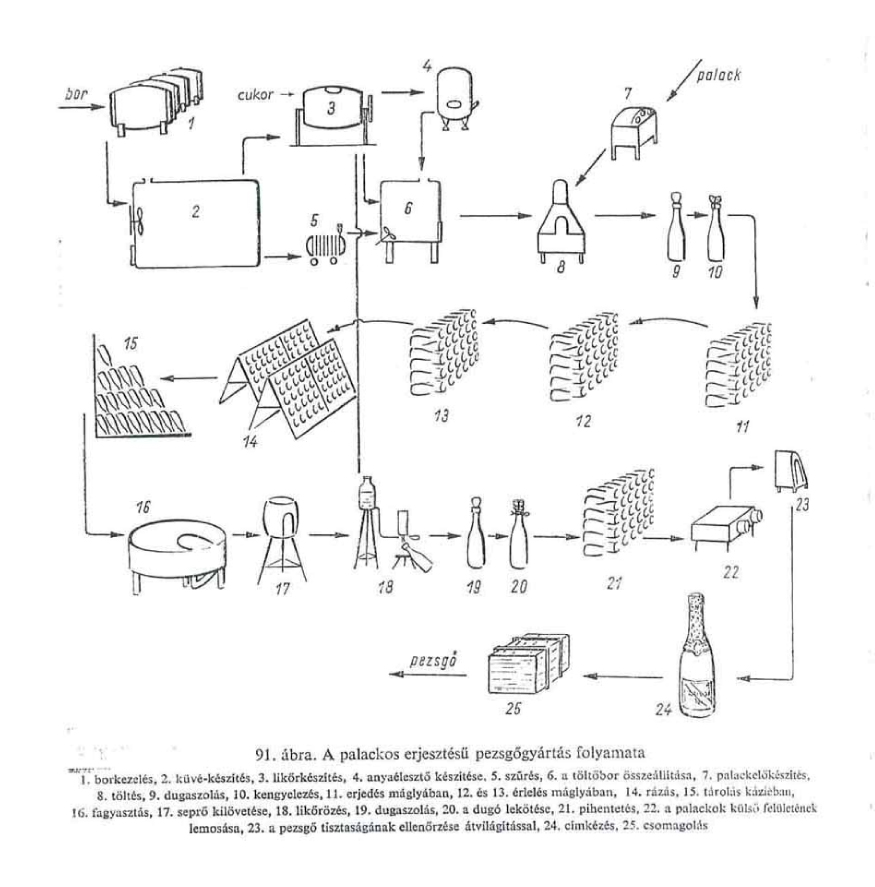 Flow sheet for Littke pezsgő fabrication.